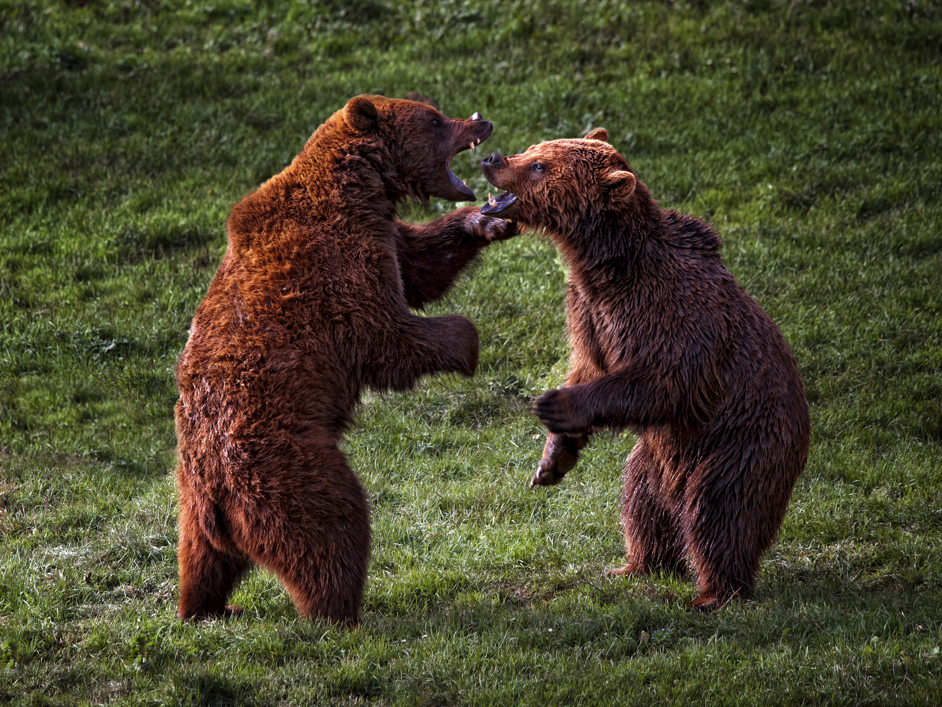 Two bears fighting